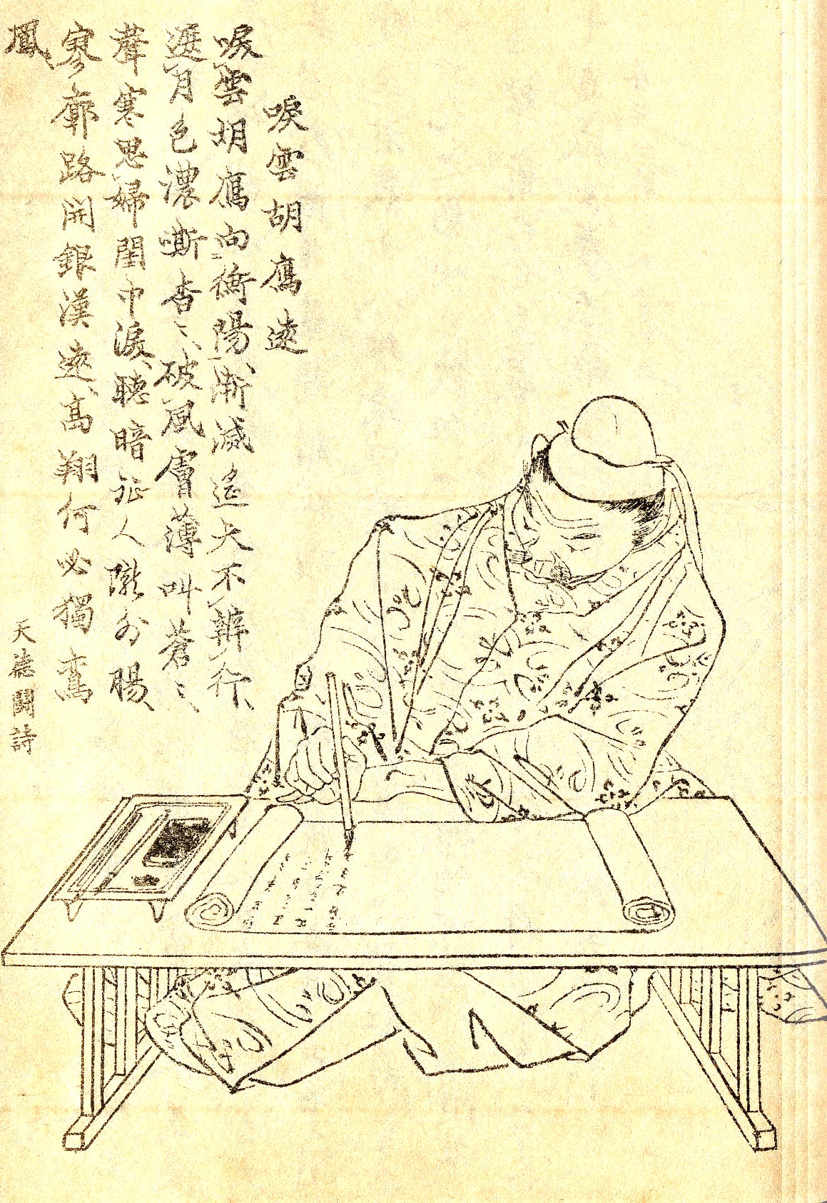 Ōe no Koretoki(大江維時) was a japanese court noble and scholar in Heian period.